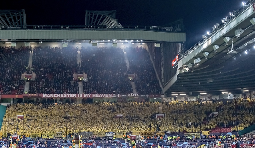 BSC Young Boys fans in Manchester